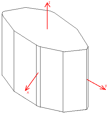 A simple trying to draw the crystal...